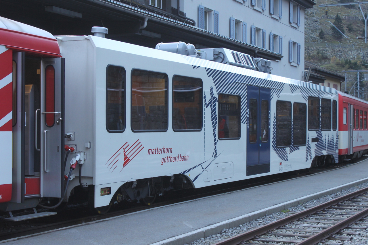 MGB B 4211 in the consist of R 629 at Göschenen.